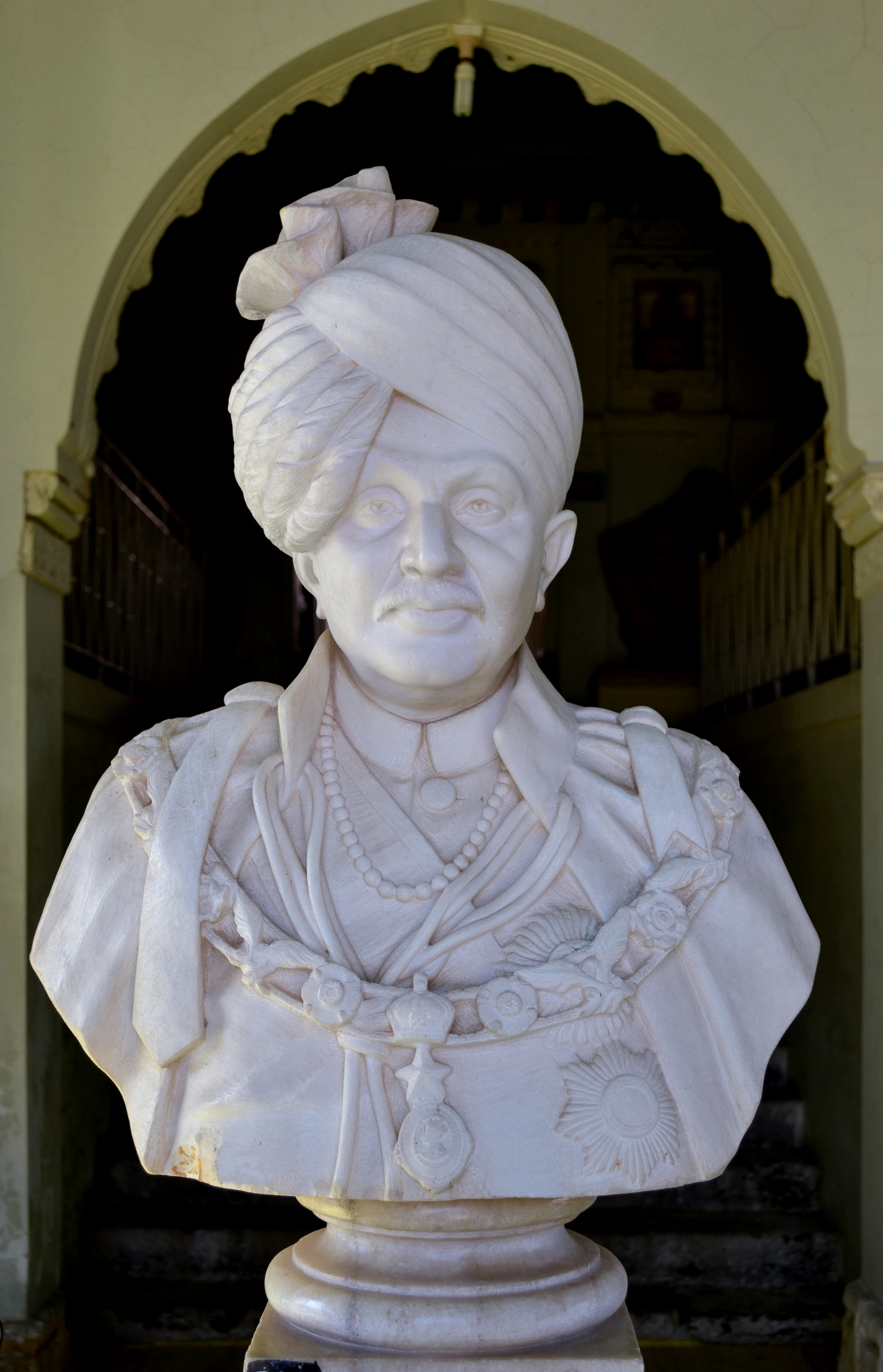 A Sculpture of His Highness Jam Shri Ranjit Singhji, one of the rulers of Jamnagar.